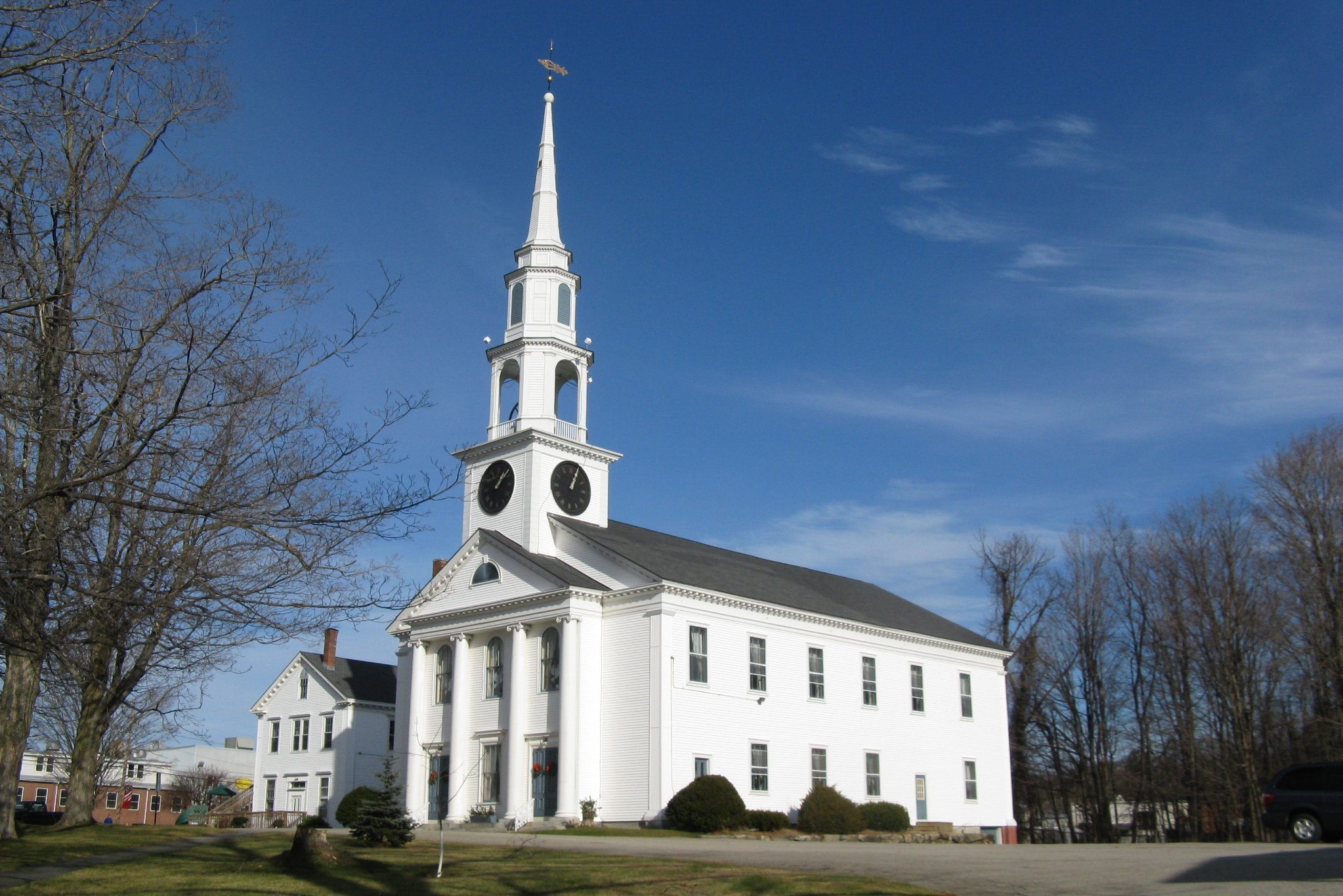 First Congregational Church, North Brookfield Massachusetts